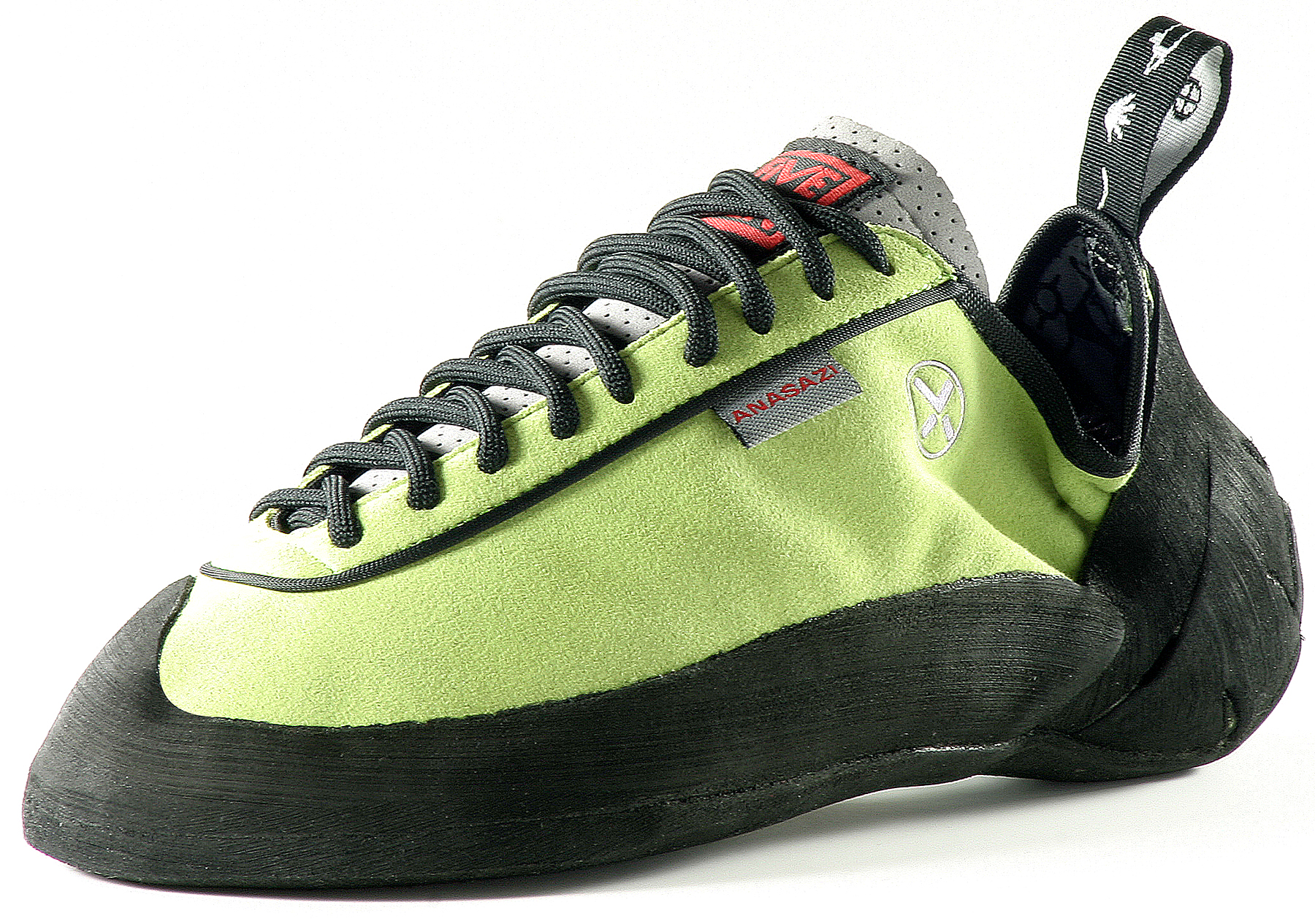 Author, Five Ten Footwear URL, Various No Copyright's violated, provided with permission by Five Ten Todrick 21:32, 4 April 2007 (UTC)